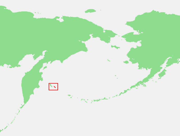 Location of Medny Island, Russia